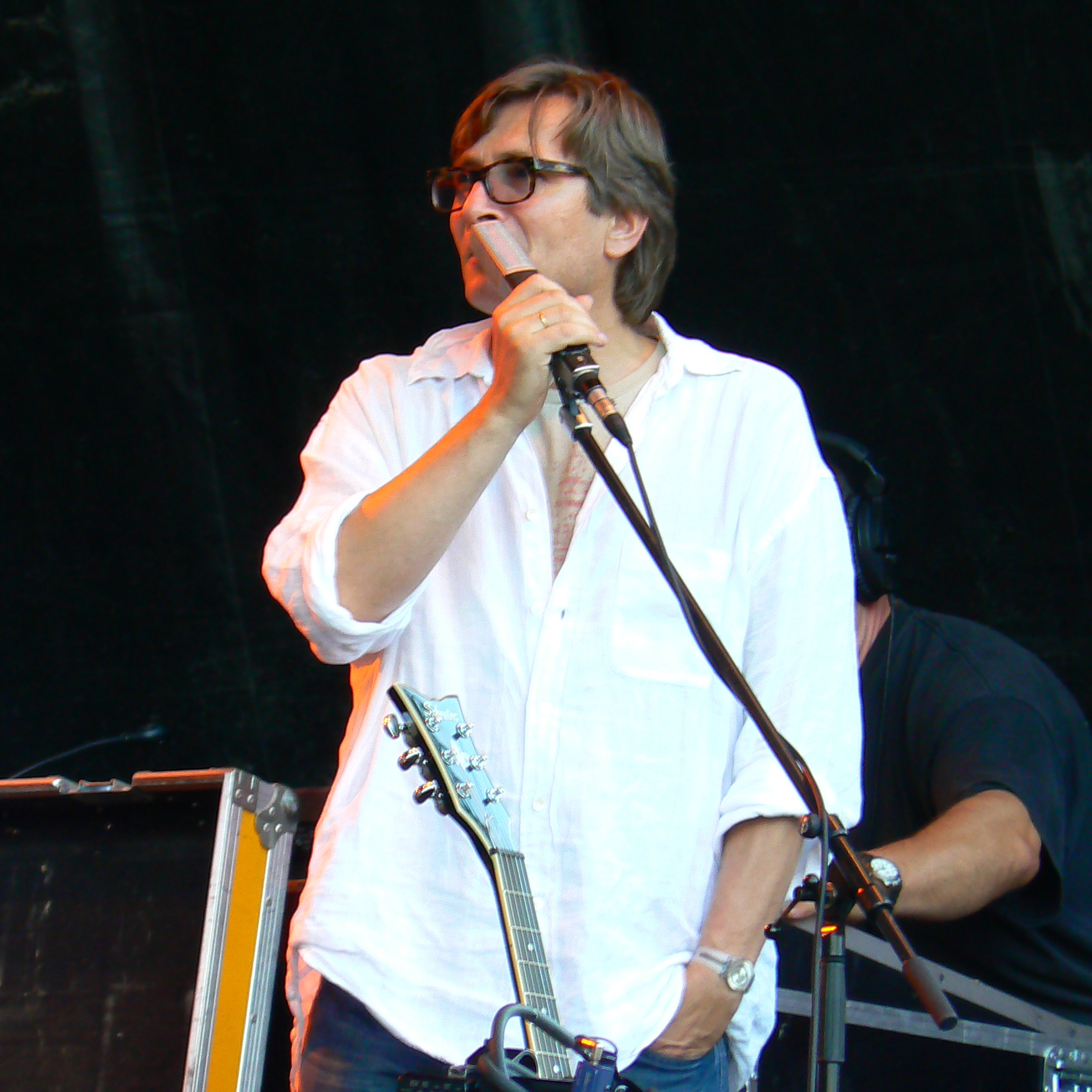 Rudy Linka speaking at Bohemia Jazz Fest in České Budějovice, Czech Republic 2008